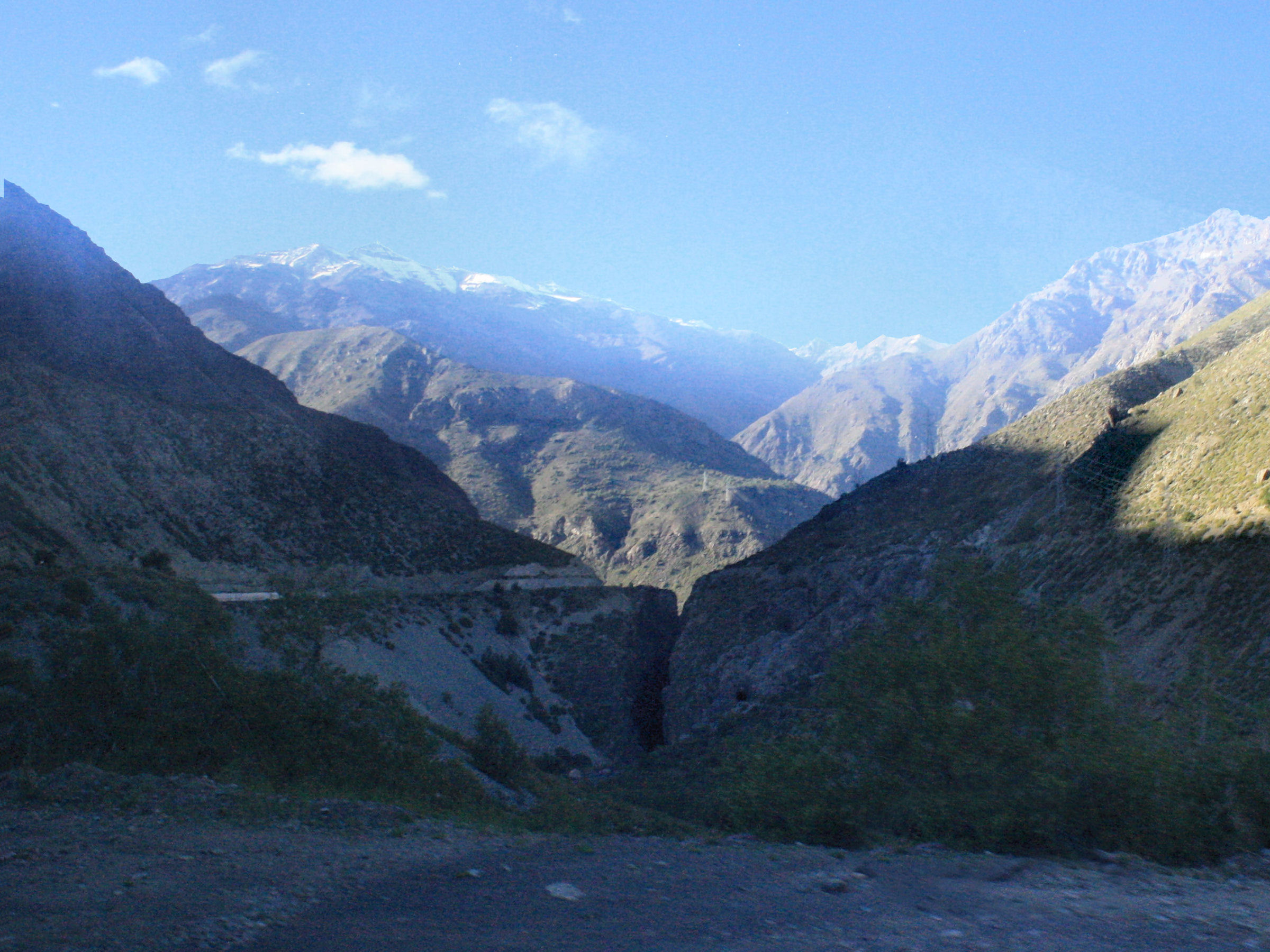 At this point , Rio Aconcagua cascades through a narrow gorge worn in the course of ages through the solid rocks. The near perpendicular walls are about 60 m high and the railway passes through a series of three short tunnels finally to emerge some 6 km further up the valley, and about 100 m higher, at Rio Blanco, 1420 m above sea level. Salto del Soldado is so called because it's said that, during the struggles for independence, a Chilean soldier being pursued by the Spanish army, escaped persecution by leaping on his horse across the chasm. I guess the chasm is about 9 m wide at the top so it's just about possible. Mind you, the landing must have been pretty perilous. There's a more spectacular view of the waterfall in this shot. At one time, trains on the Transandine Railway (Ferrocarril Trasandino) passed through the tunnel. You get a better view of the line from this shot. Both those photos are on the Turismo Ciudad Andes website. And there's an old photo of a train entering the tunnel from the other side here. It's from the website of El Ferrocarril Trasandino: Fotos históricas. There's also a c1905 photo of the waterfall here. The introduction to this set describes our drive along Ruta 60 from Los Andes to the frontier. It includes links to maps and historic photos.